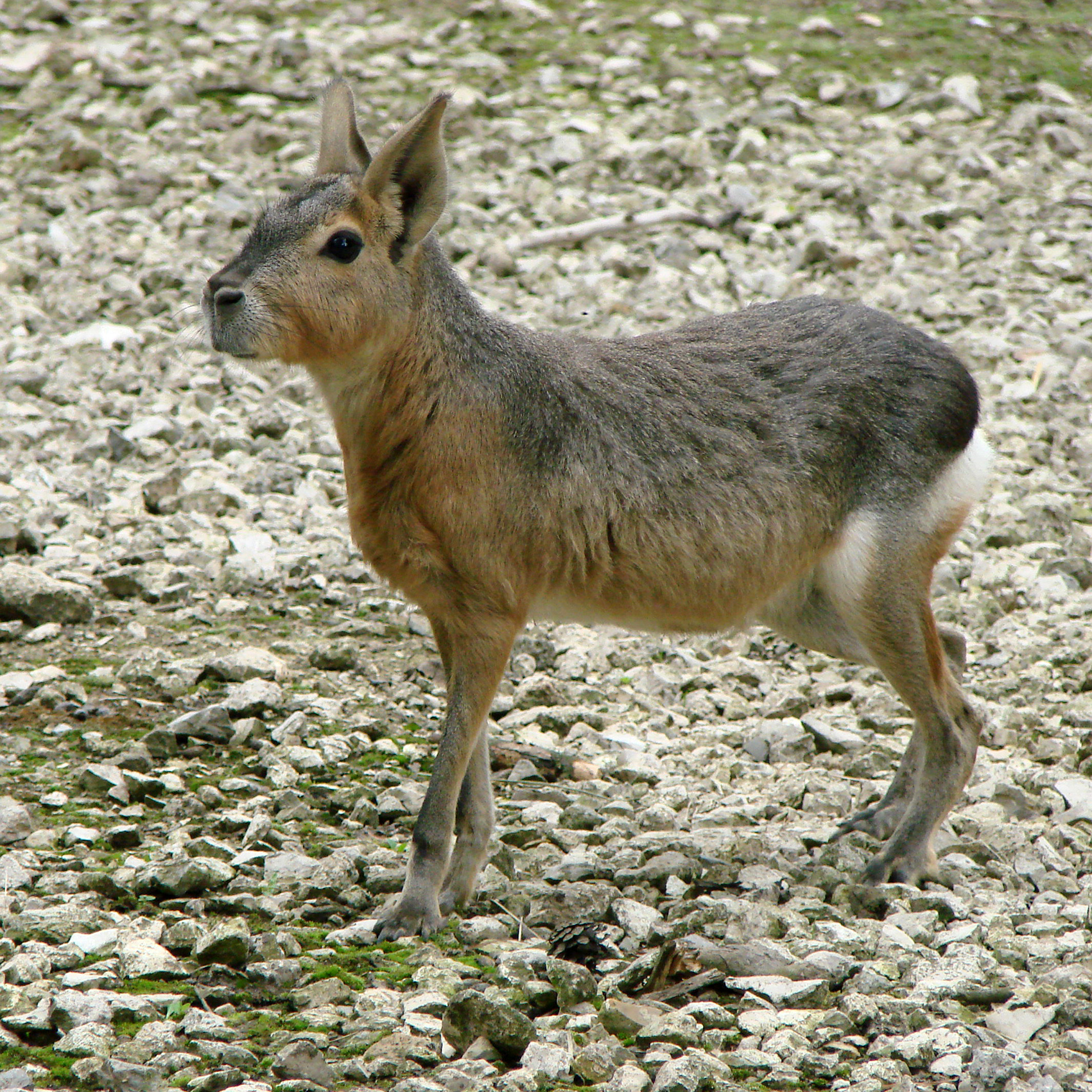 Mara (Dolichotis patagonum). Thoiry Zoo.